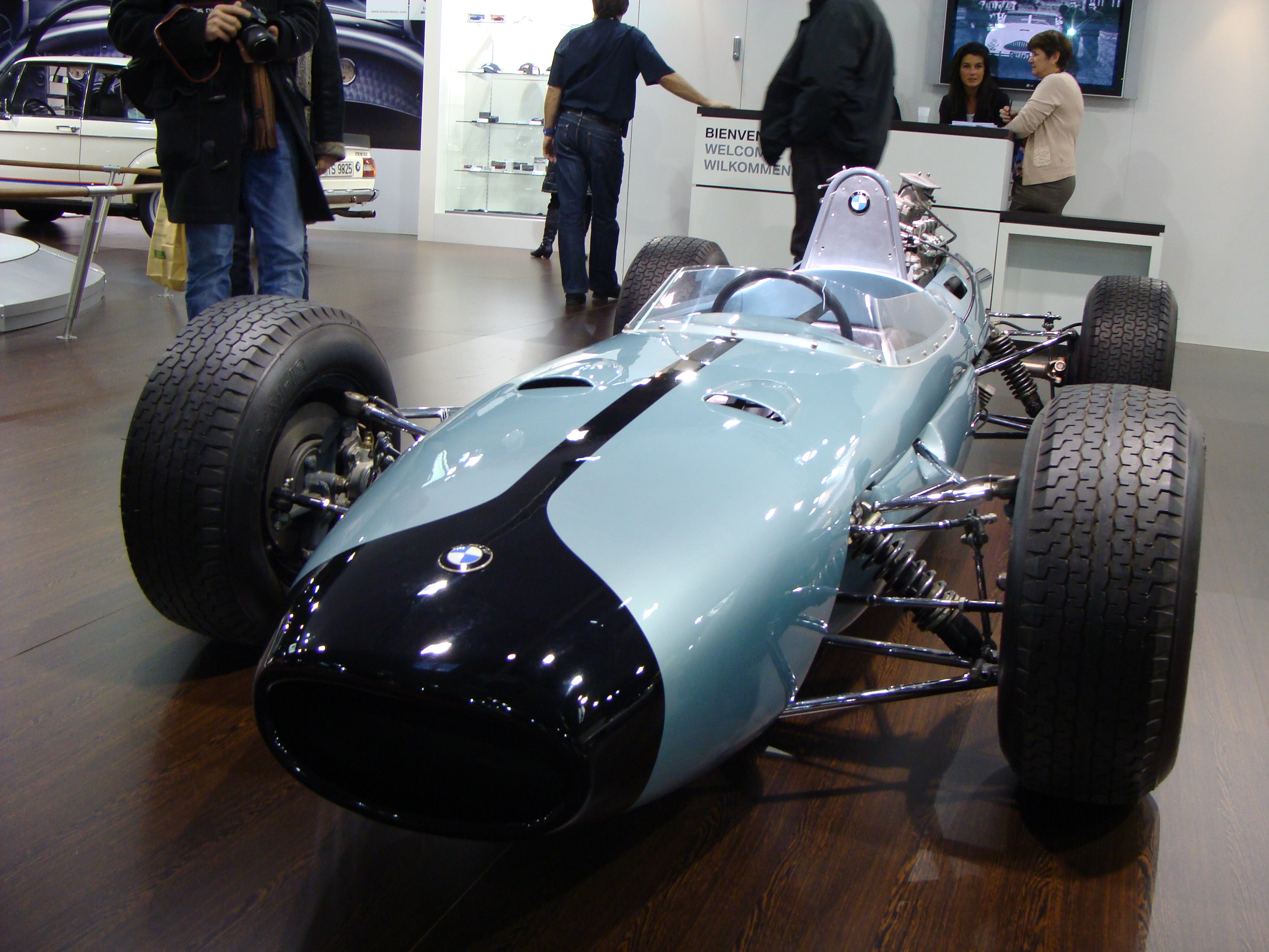 Brabham BT7 at Rétromobile 2012